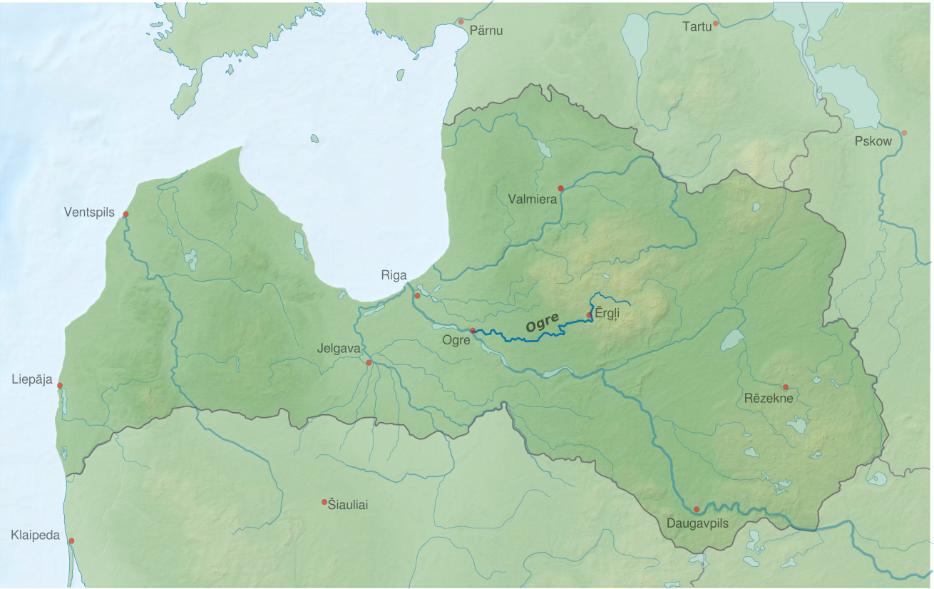 Map of river Ogre in Latvia based on relief-location maps by users: NNW, Виктор В, Alexrk2, Chumwa, Karlis